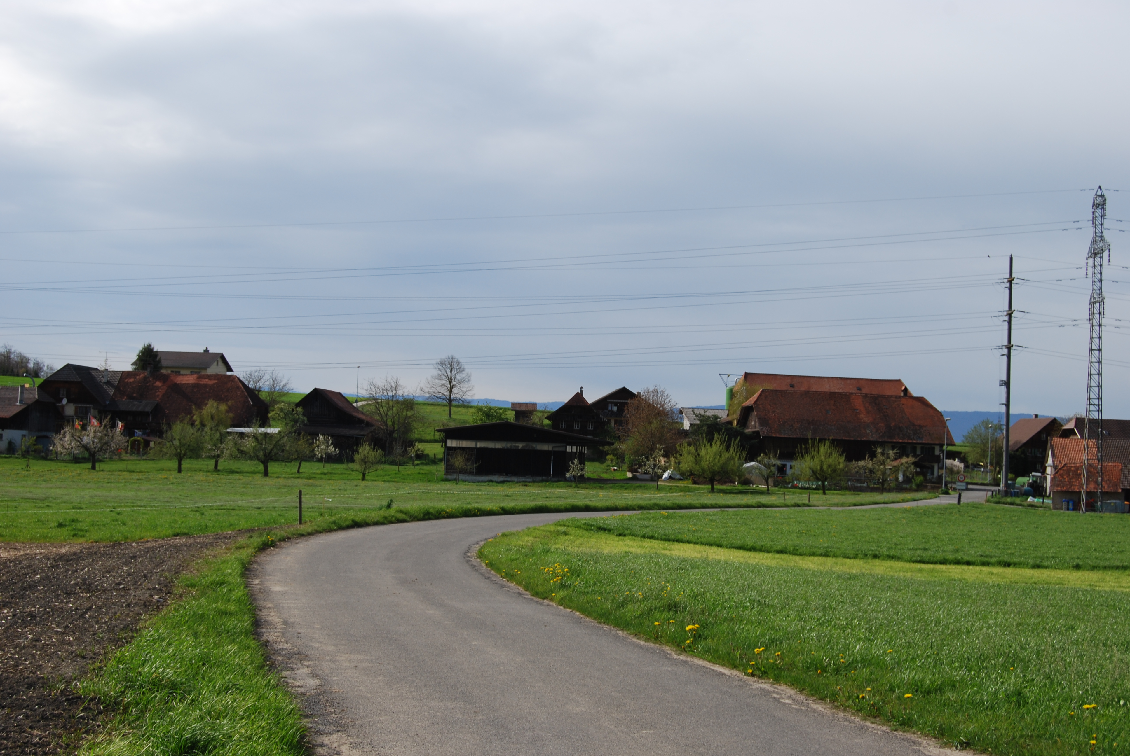 Clavaleyres, canton of Bern, SwitzerlandEsperanto: Clavaleyres, Kantono Berno, Svislando